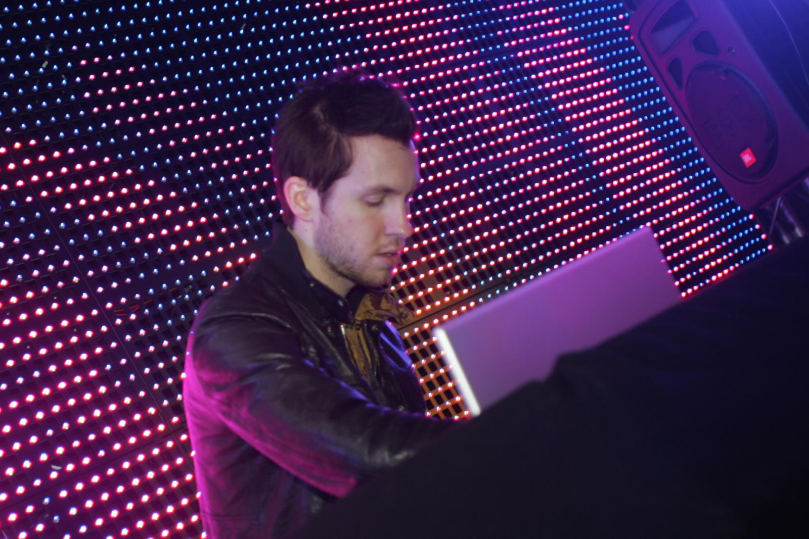 Calvin Harris at Xbox Reverb Launch in 2009.